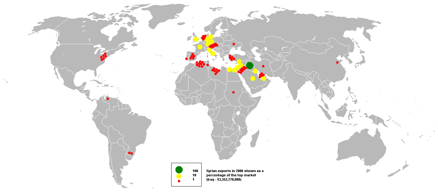 This bubble map shows the global distribution of Syrian exports in 2006 as a percentage of the top market (Iraq - $3,352,770,000). This map is consistent with incomplete set of data too as long as the top producer is known. It resolves the accessibility issues faced by colour-coded maps that may not be properly rendered in old computer screens. Data was extracted on 19th September 2007 from Based on :Image:BlankMap-World.png